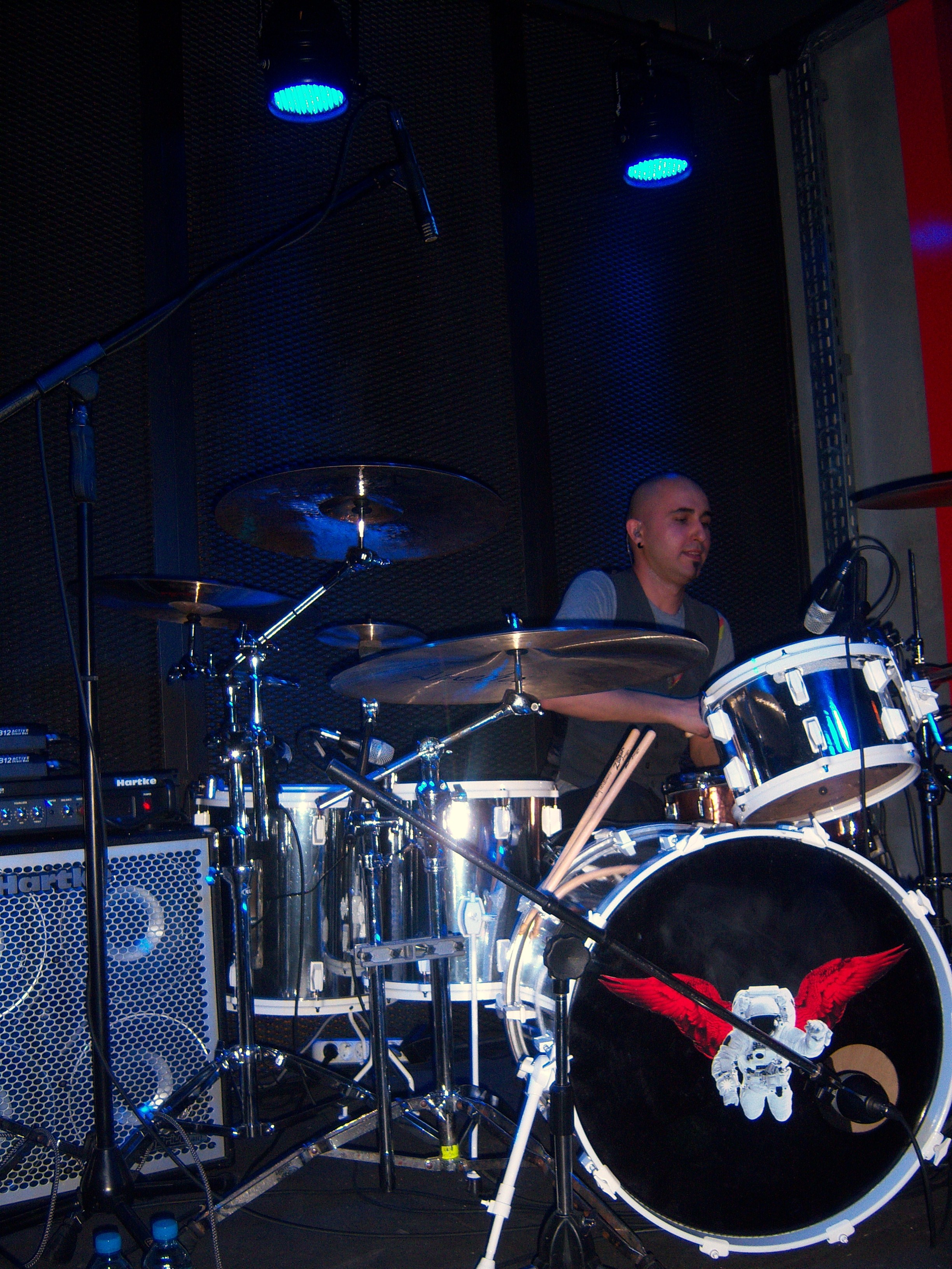 Berke Özgümüş in Bursa Hayal Kahvesi.